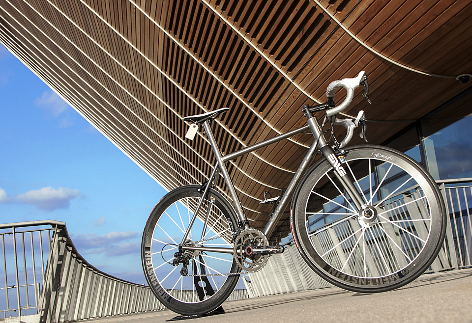 Wittson Supressio